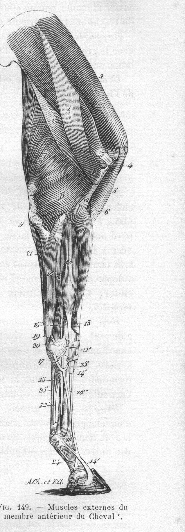 The external muscles of the foreleg of the horse (Equus caballus).